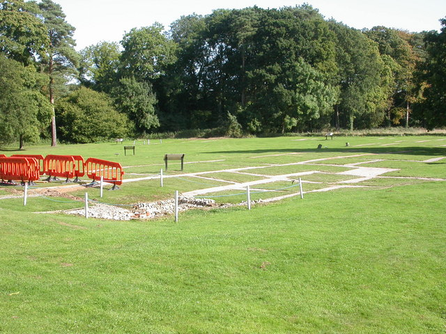 Rockbourne, Roman villa Remains of a villa; the foundations of two rooms with mosaics are exposed; the rest of the site has been covered up and left for posterity to re-interpret, with wooden edging and gravel showing where structures were. The edging is currently being replaced, and screened off.